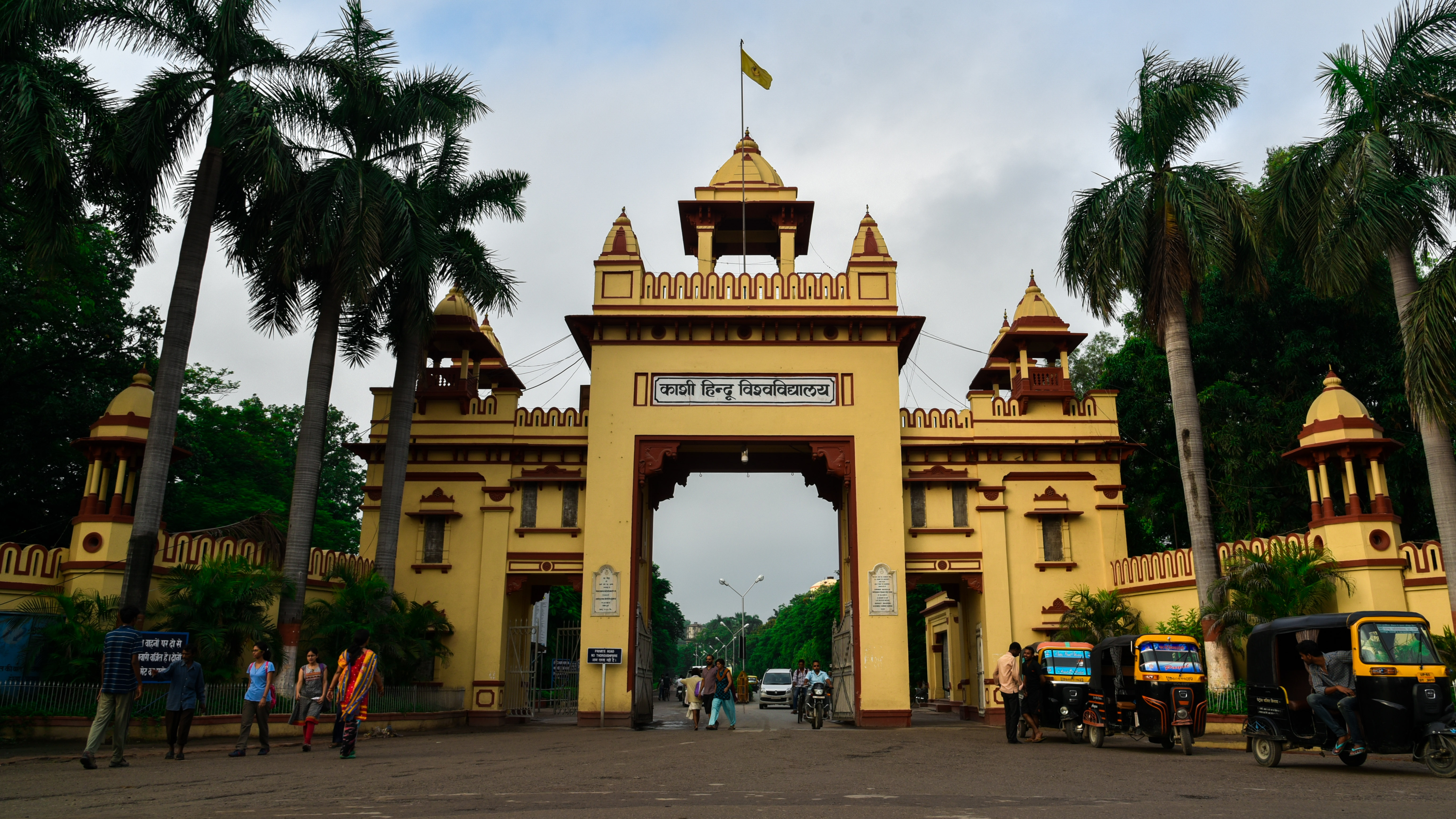 Banaras Hindu University, Varanasi Entrance gate